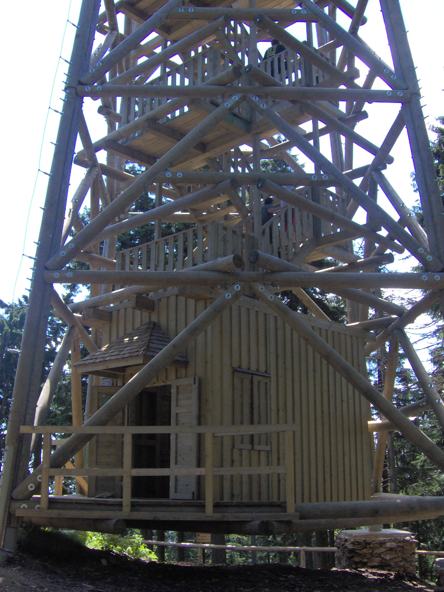 Watchtower on peak of mountain Boubín, Bohemian Forest Česky: Základna rozhledny na Boubíně, Šumava